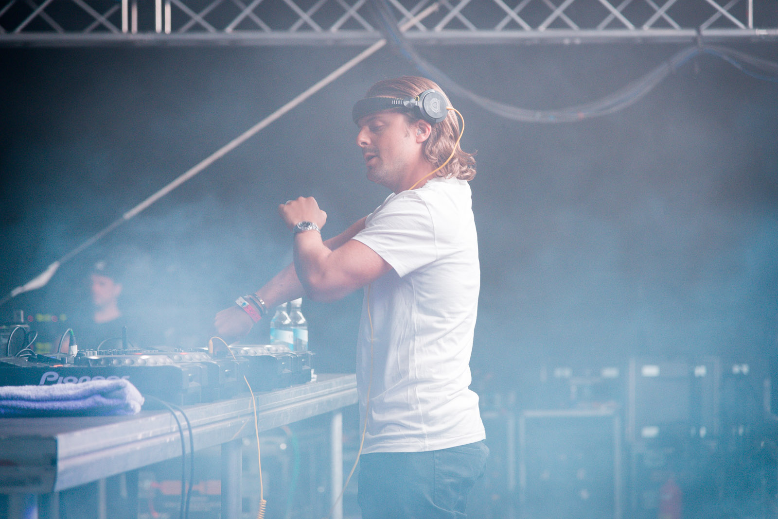 Axwell live at Palmesus 2013